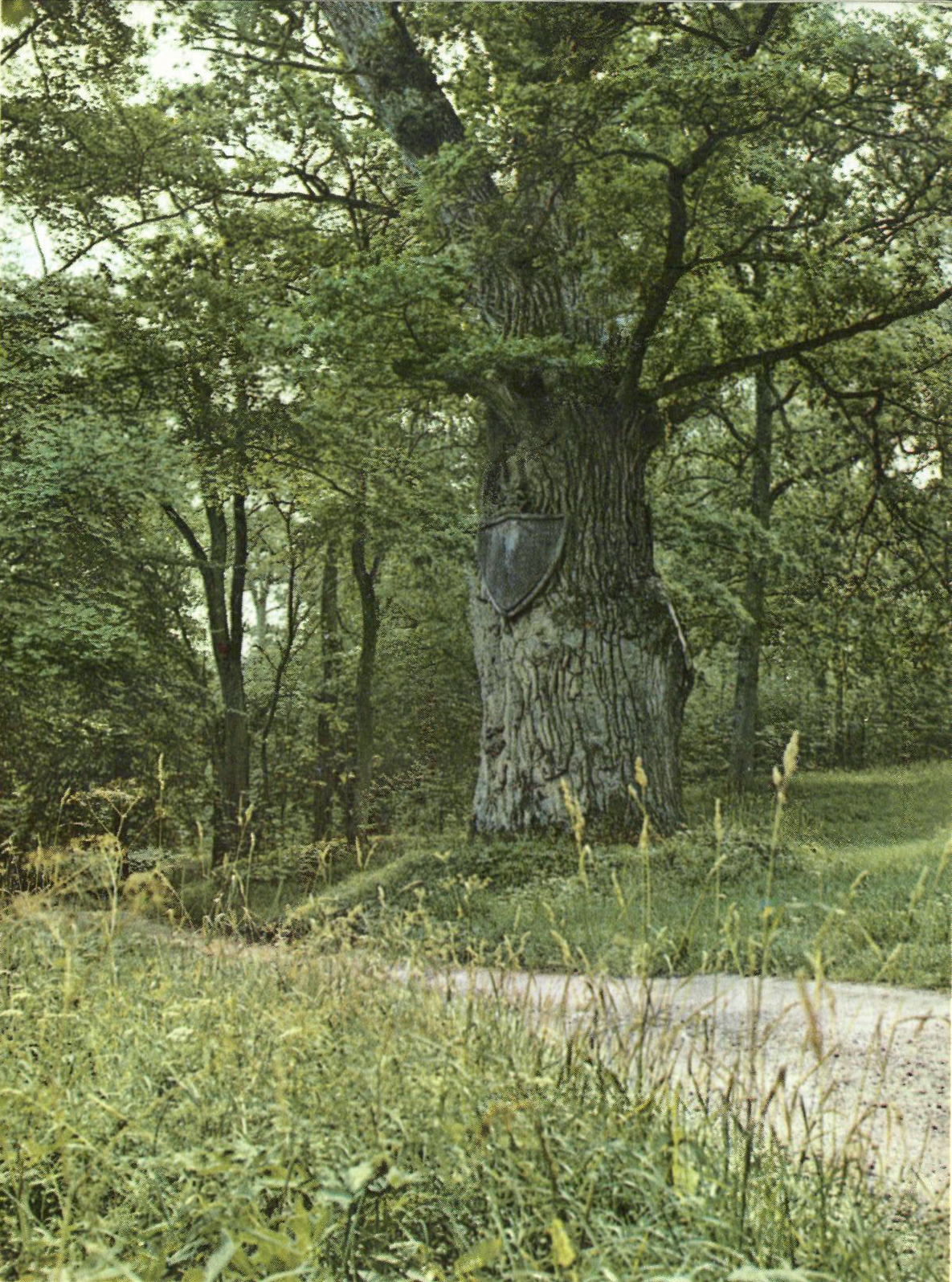 Axel Oxenstierna's oak in the park of Tidö castle. The oak is said to have been planted by count Axel Oxenstierna.